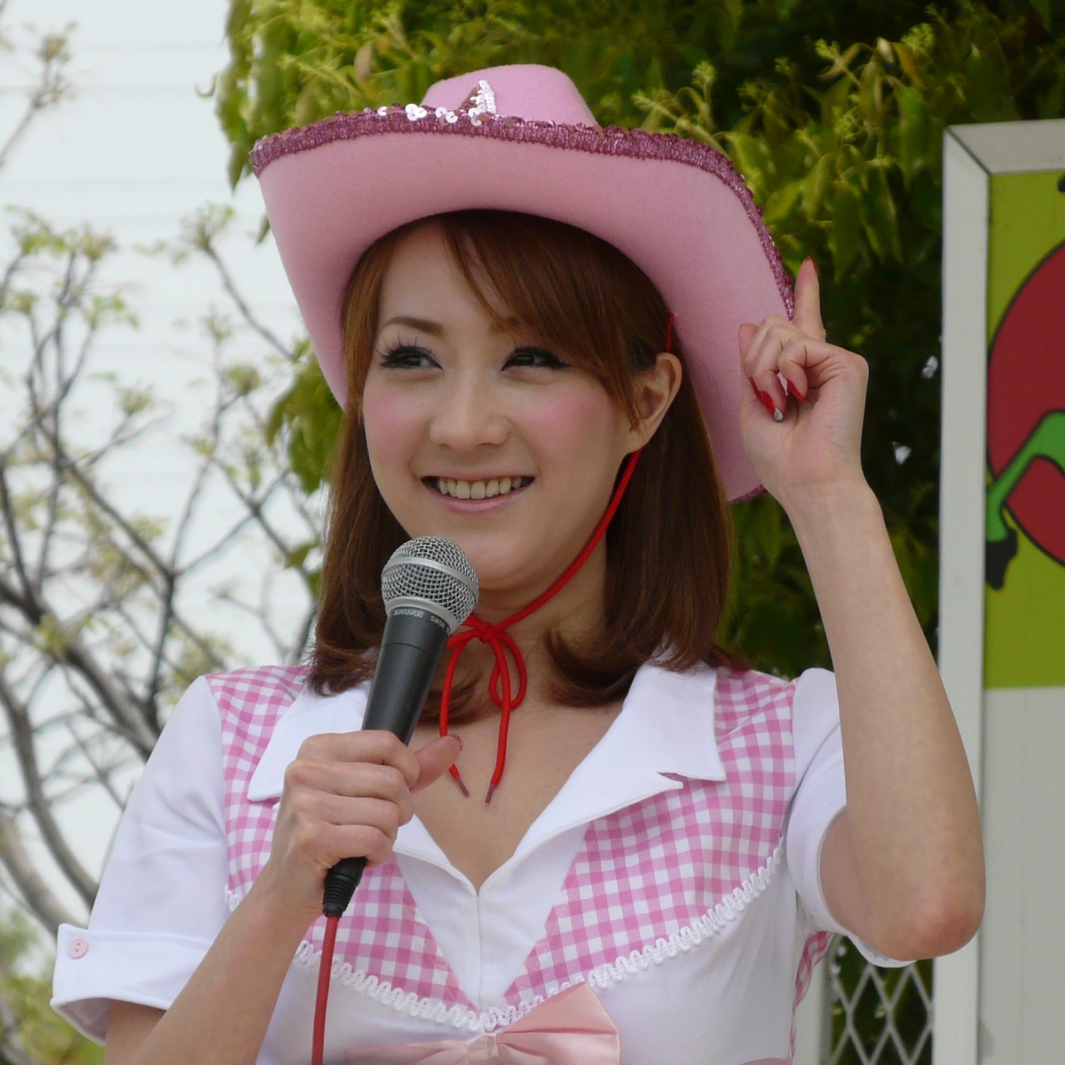 Kyoko-Fujikawa2011